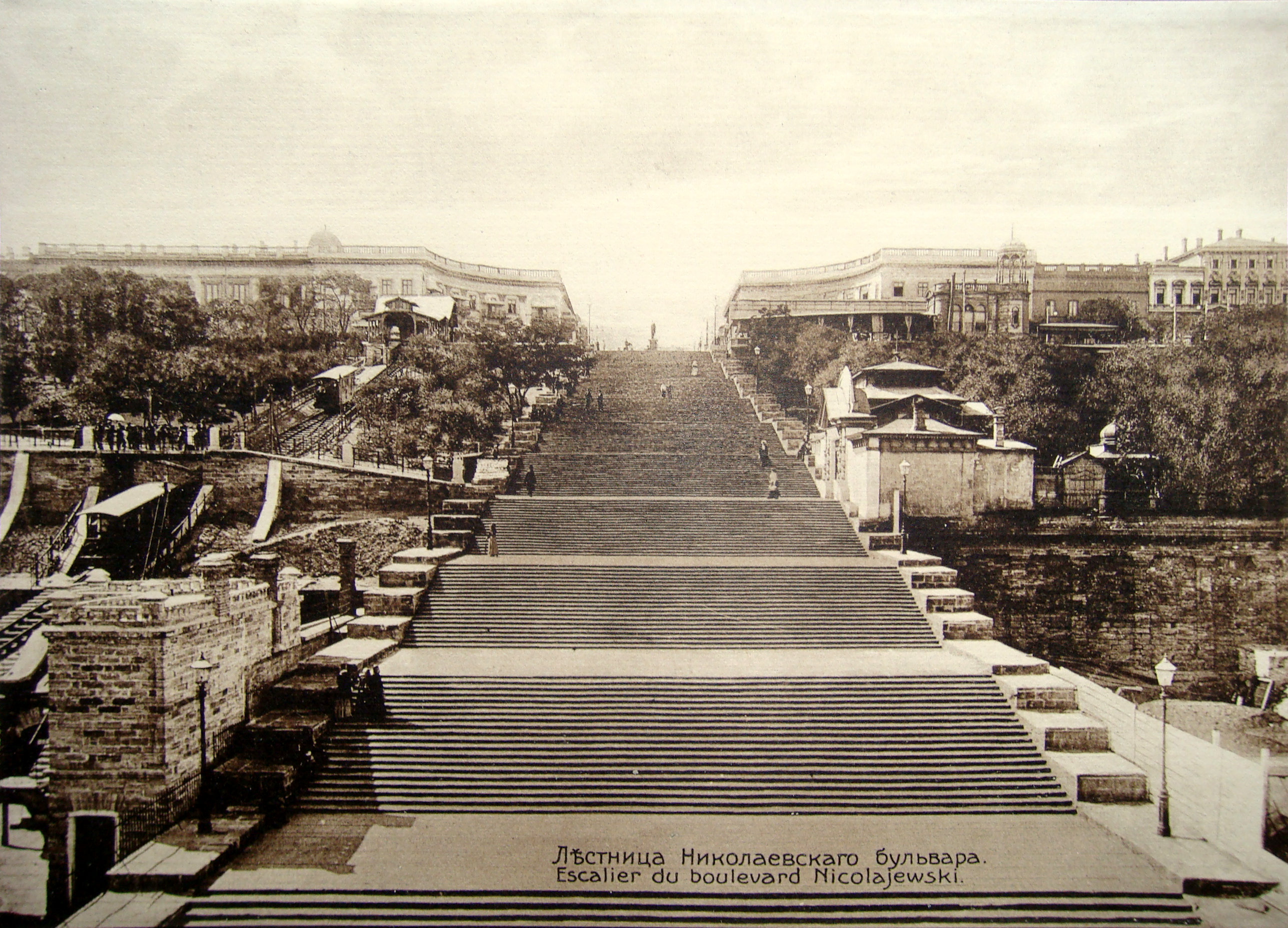 This is photo view of Odessa from Souvenir Photo Album published in Odessa circa early XX century.